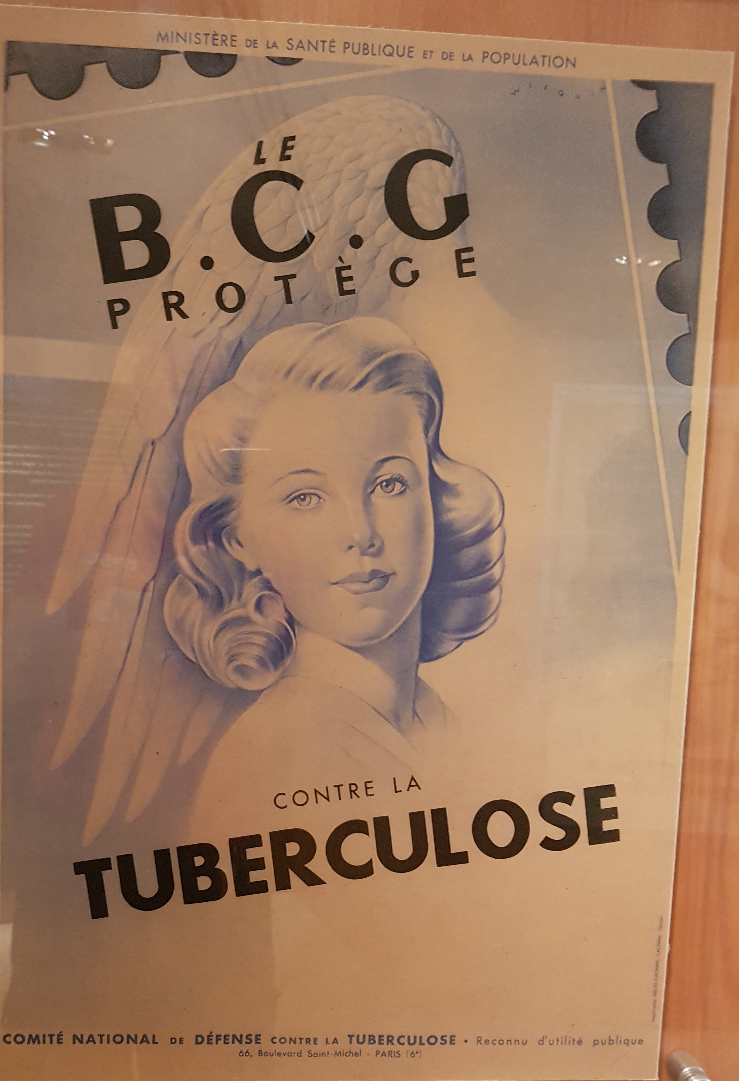 An early French advertisment for BCG